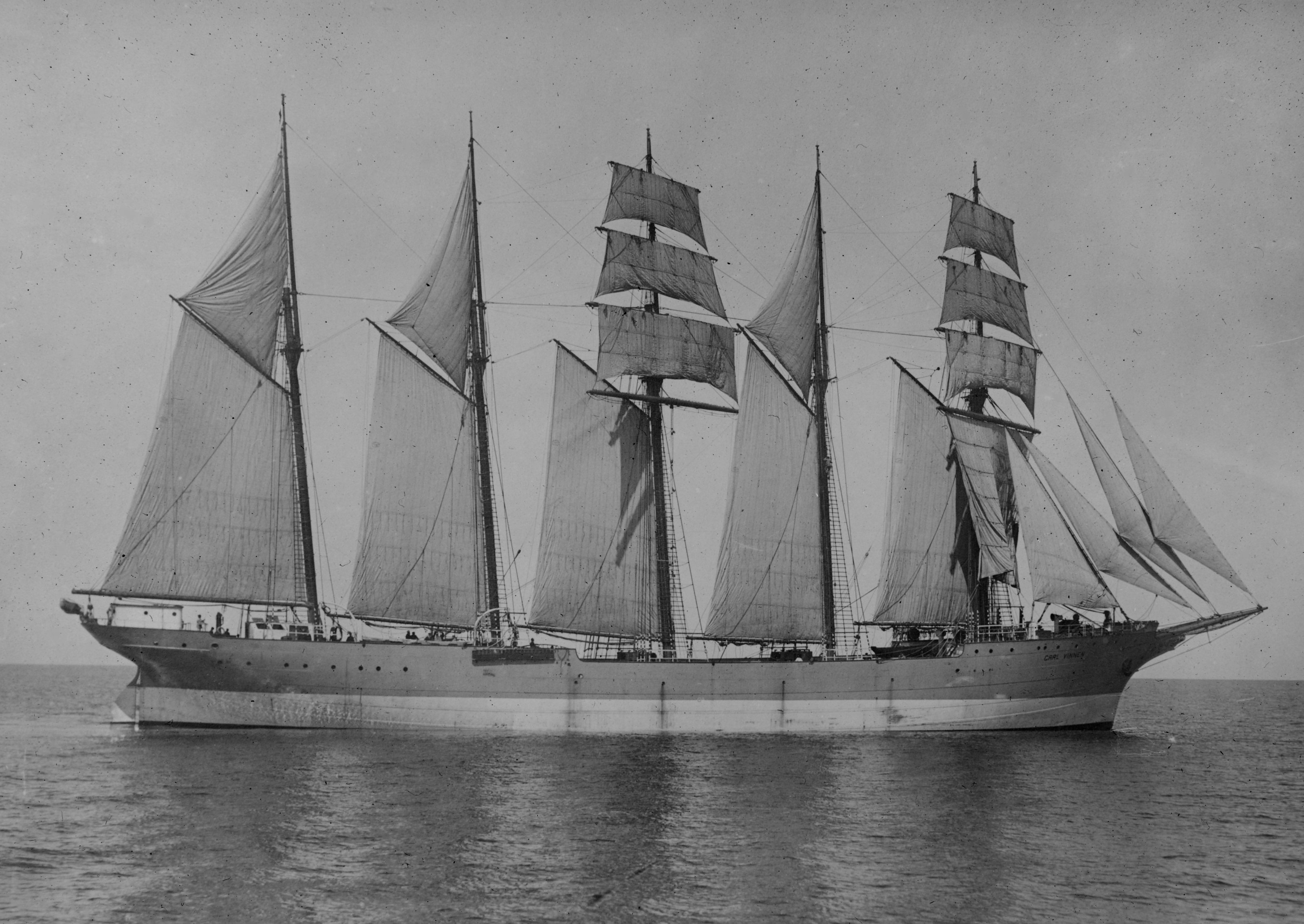 Shows the topsail schooner Carl Vinnen.